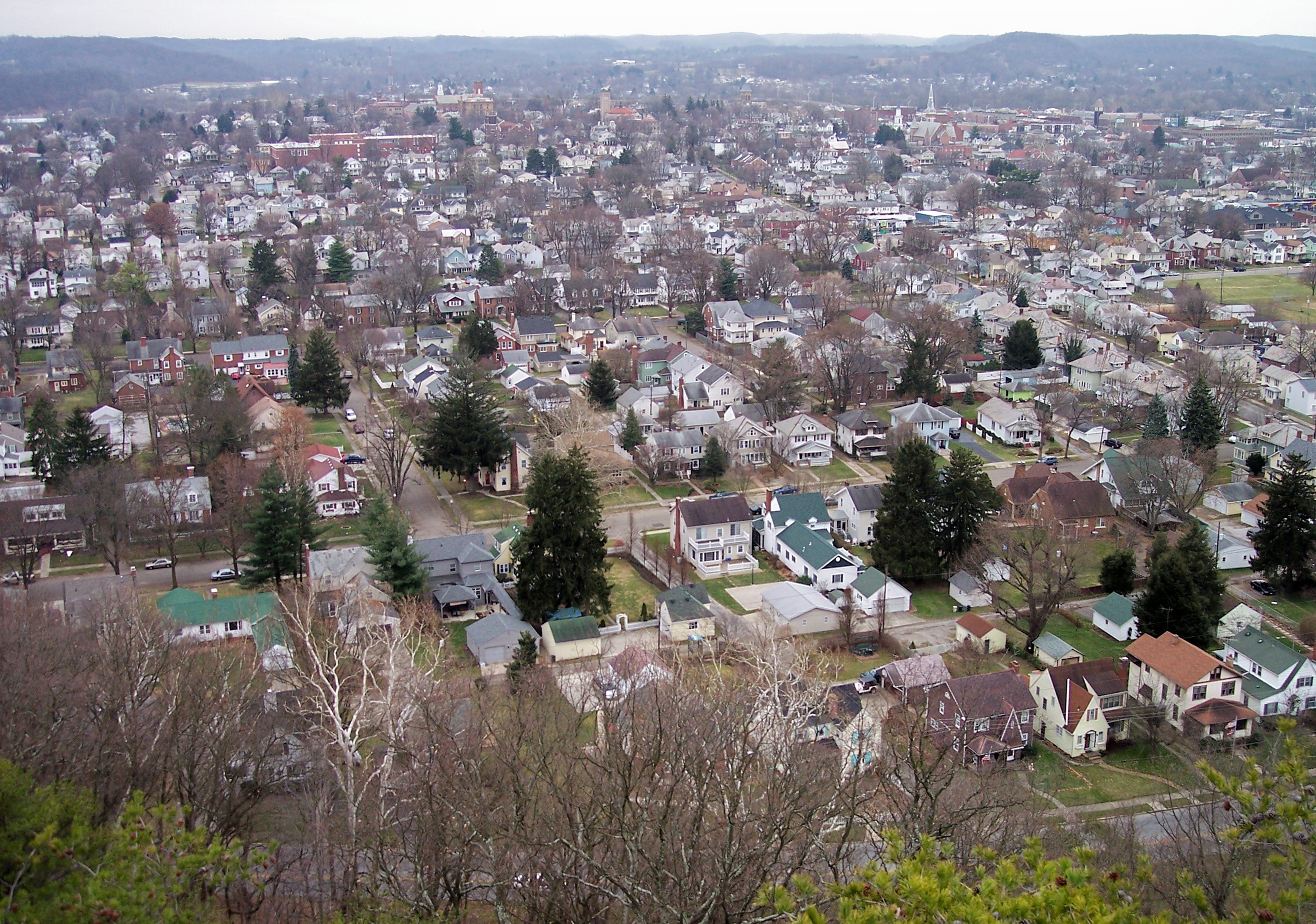 Lancaster, Ohio as viewed from Mount Pleasant